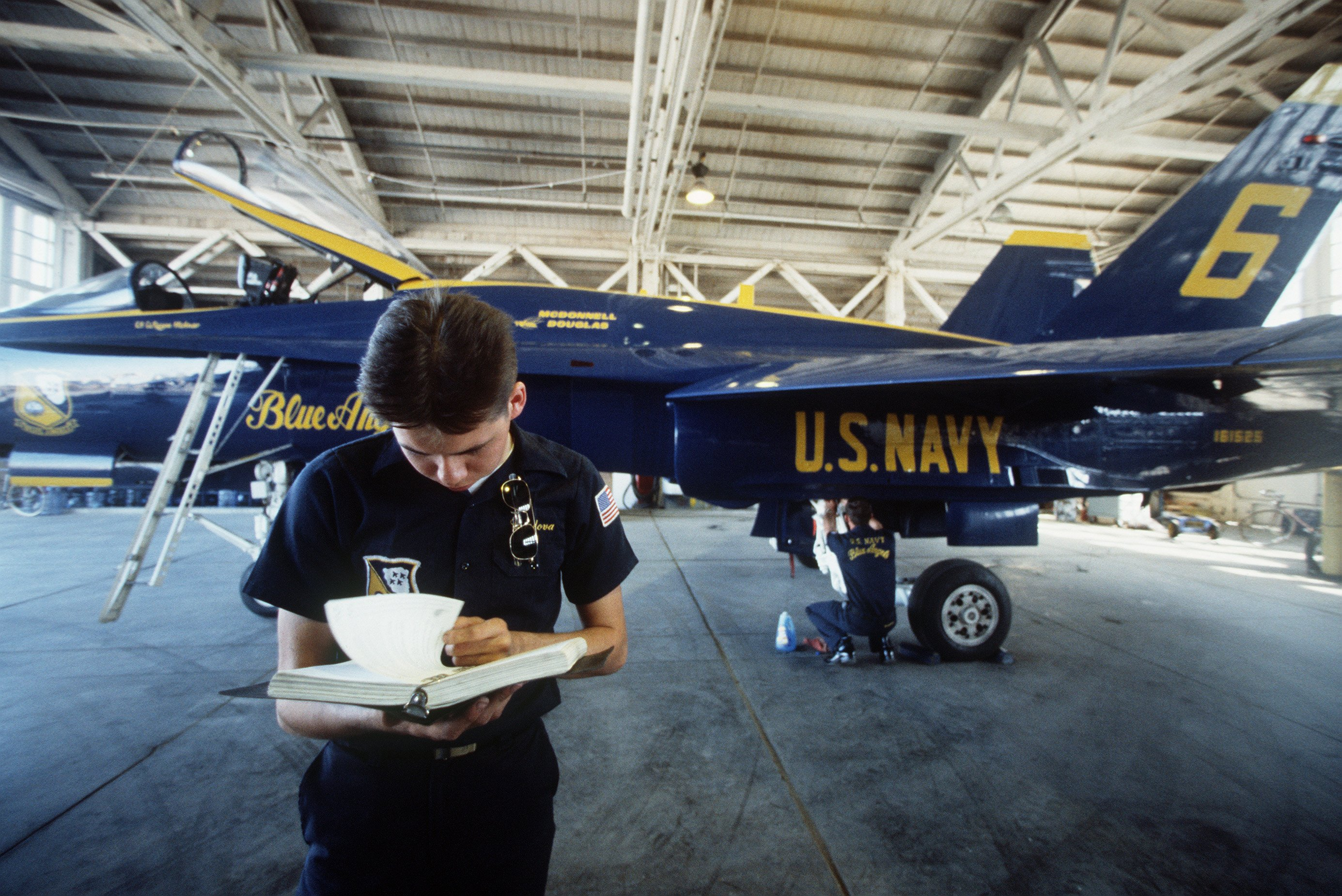 ID: DNST8711226 Service Depicted: Navy A Blue Angels Flight Demonstration Squadron technician studies an F/A-18 Hornet aircraft maintenance manual. Location: NAVAL AIR FACILITY, EL CENTRO, CALIFORNIA (CA) UNITED STATES OF AMERICA (USA) Camera Operator: PH1 CHUCK MUSSI Date Shot: 1 Jul 1987